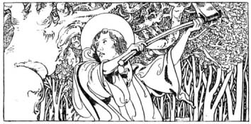 No caption. An illustration of St. Boniface chopping down the sacred oak.